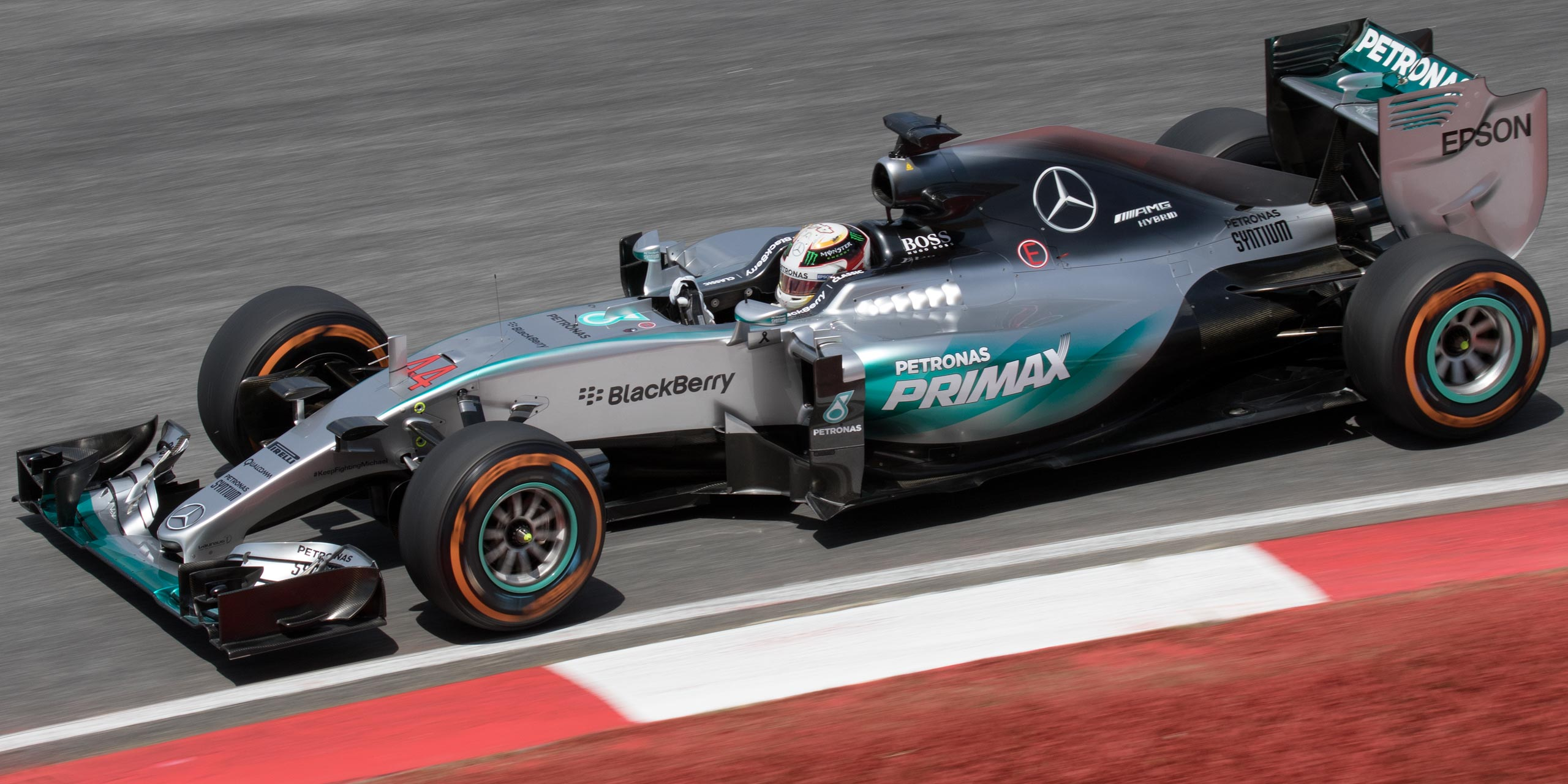 Formula One 2015 Rd.2 Malaysian GP: Lewis Hamilton (Mercedes GP)